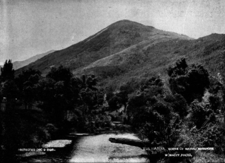 Tua Marina: The Scene of the Wairau Massacre. Title: The Cyclopedia of New Zealand [Nelson, Marlborough & Westland Provincial Districts] Author: Cyclopedia Company Limited Publication details: The Cyclopedia Company, Limited, 1906, Christchurch